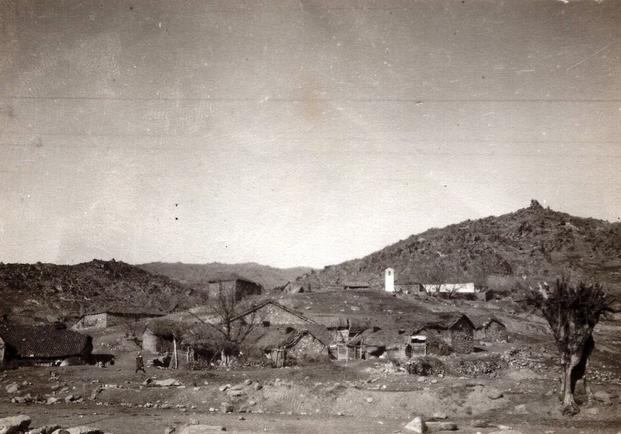 Skočivir village, photographed around 1915 This media file is produced by Wikipedian in Residence in Category:Wikipedian in Residence at DARM in 2016.